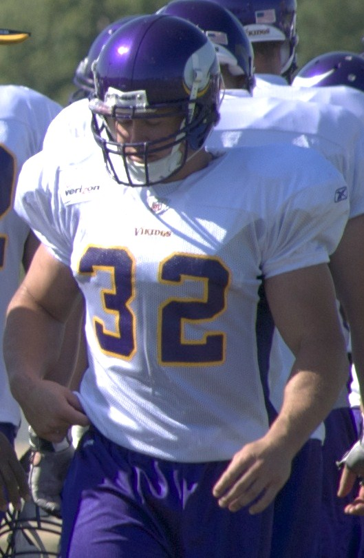 Minnesota Vikings players at training camp, 2011.